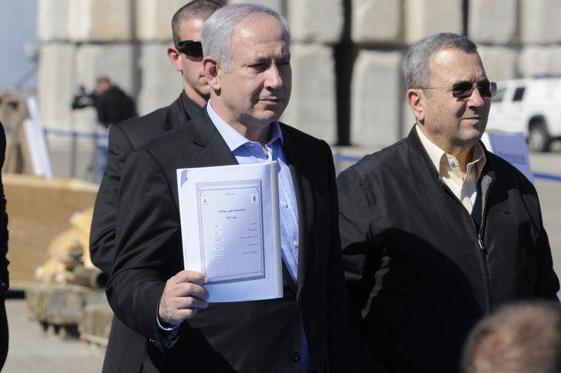 March 16, 2011 Pictured here: Prime Minister Mr. Benjamin Netanyahu and Defense Minister, Mr. Ehud Barak hold an Iranian instruction manual for the C-704 anti-ship missile written in Persian which further highlights Iran's involvement in the weapons smuggling on-board the "Victoria". The manual contained various emblems of the Iranian government. The IDF Navy intercepted the cargo vessel “Victoria” loaded with various weaponry. According to assessments, the weaponry on-board the vessel was intended for the use of terror organizations operating in the Gaza Strip. The vessel, flying under a Liberian flag, was intercepted some 200 miles west of Israel’s coast. This incident was part of the Navy’s routine activity to maintain security and prevent arms smuggling, in light of IDF security assessments. The vessel initially departed from the Lattakia Port in Syria, and then proceeded to Mersin Port in Turkey. The IDF emphasizes that Turkey has no connection to this incident regarding the weaponry uncovered on-board. For more information